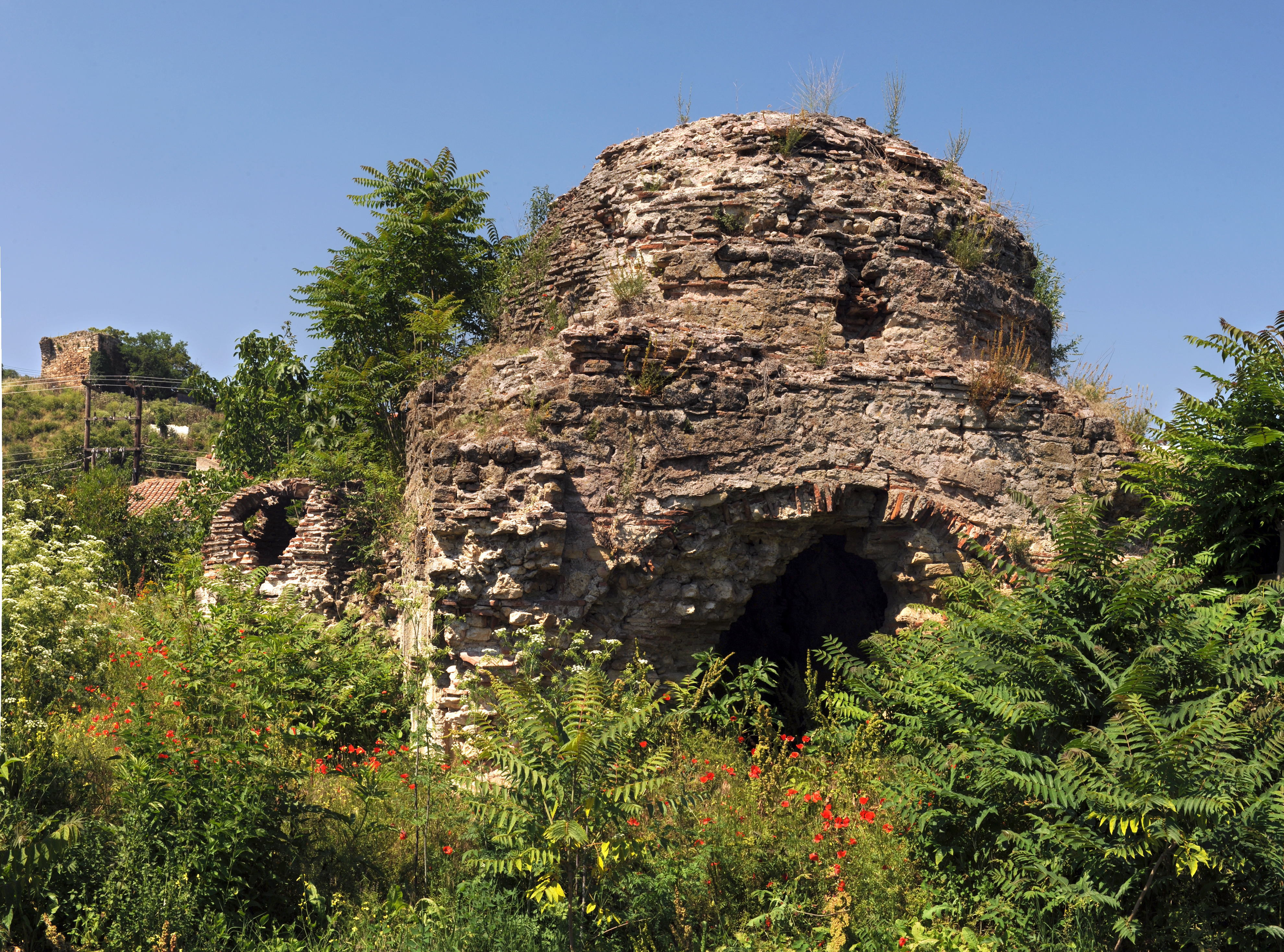 Ottoman baths of Ourts Pasa (Oruç Paşa Hamam), Didymoteixo, Evros, Greece.